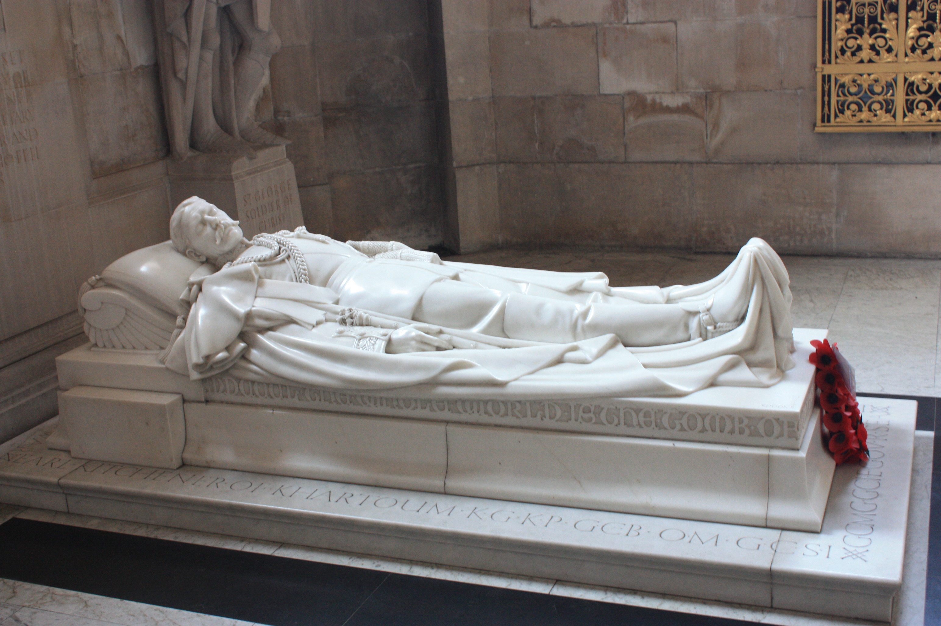 Lord Kitchener's tomb, St Paul's Cathedral, London